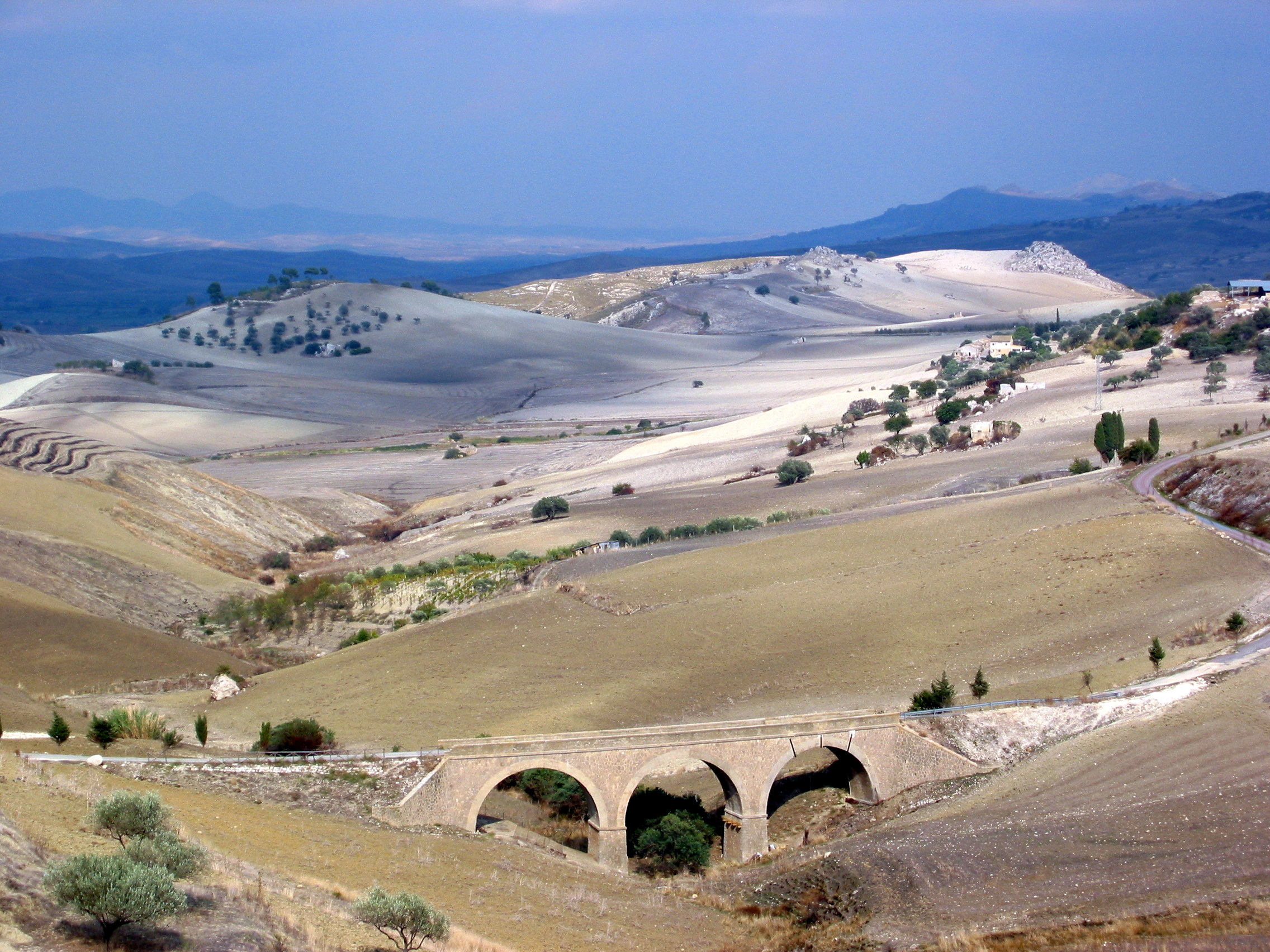 Countryside between Caltagirone and Piazza Armerina, Sicily, Italy